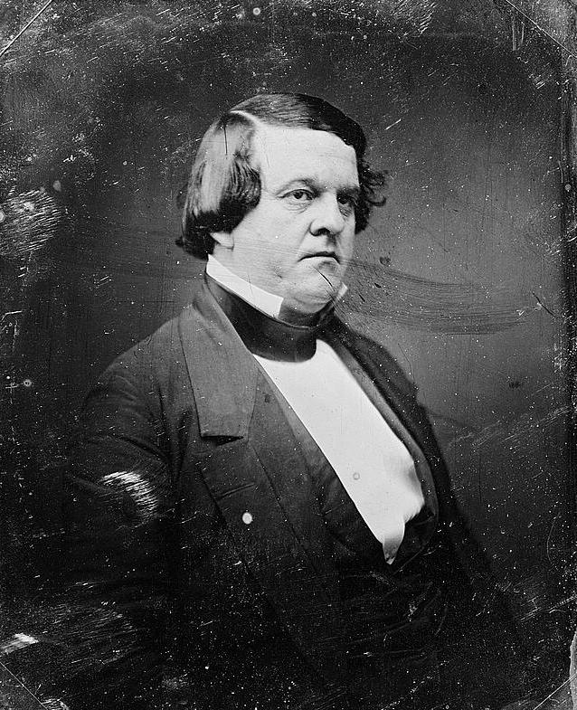 Georgia politician Howell Cobb. Democratic Congressman from Georgia, 1843-1851, 1855-1857; Governor of Georgia, 1851-1853; U.S. Secretary of the Treasury, 1857-1860.